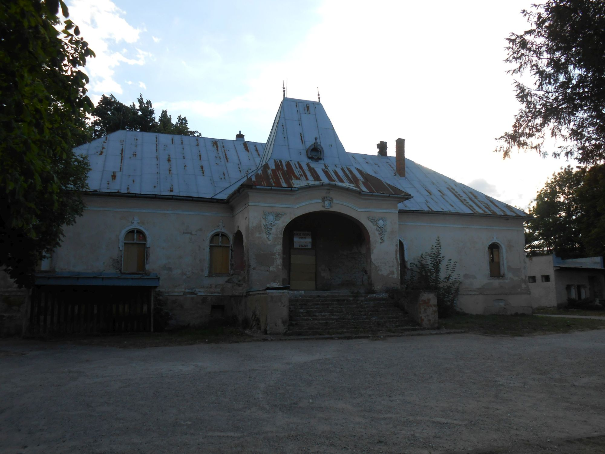 Manor in Nižný Hrabovec